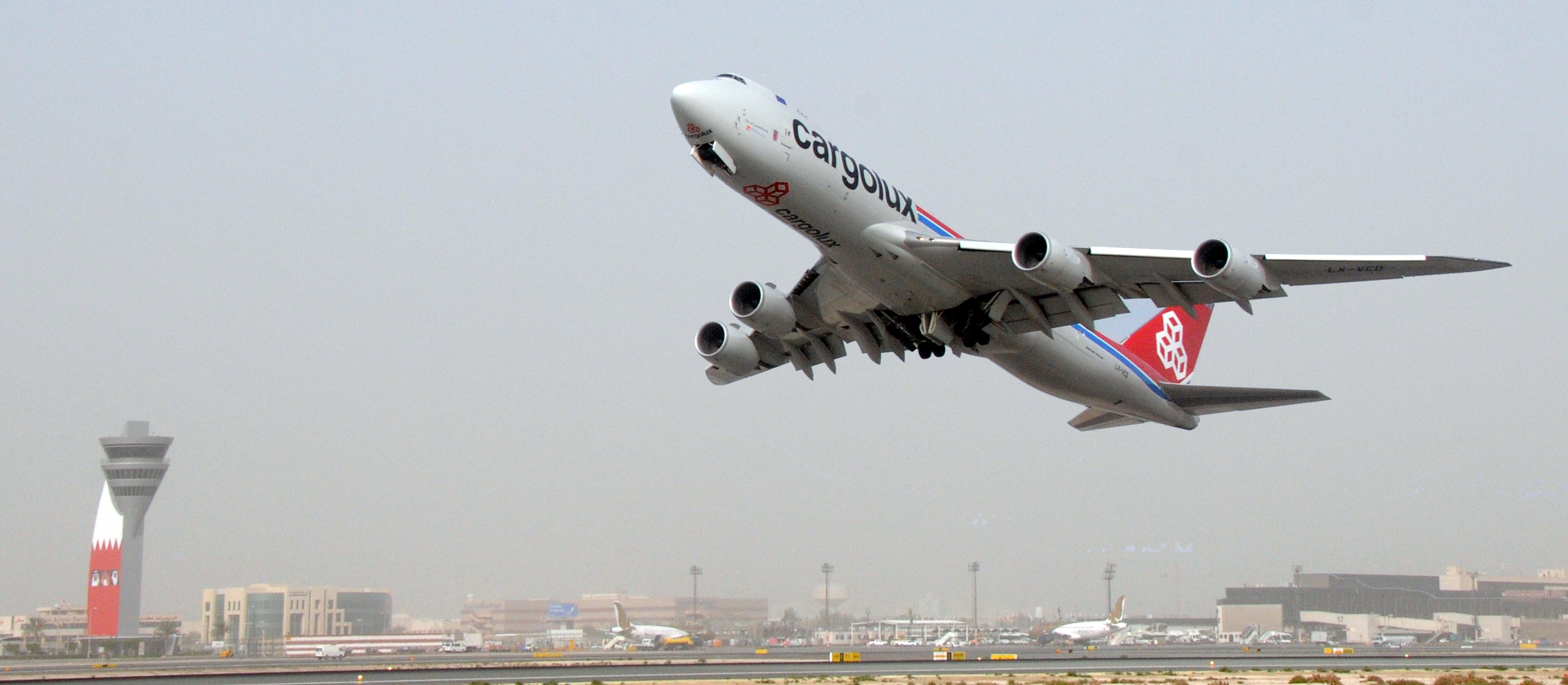 A photo montage showing a Cargolux 747-800F in Bahrain. This is a retouched picture, which means that it has been digitally altered from its original version. Modifications: Photo is a stich-up from two separate photos.